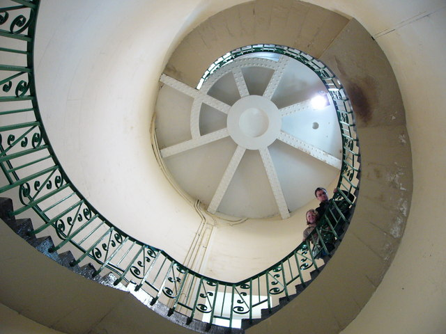 Dungeness, old lighthouse interior